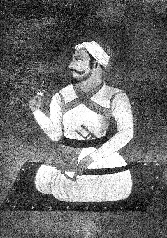 Shahaji, the King-Maker